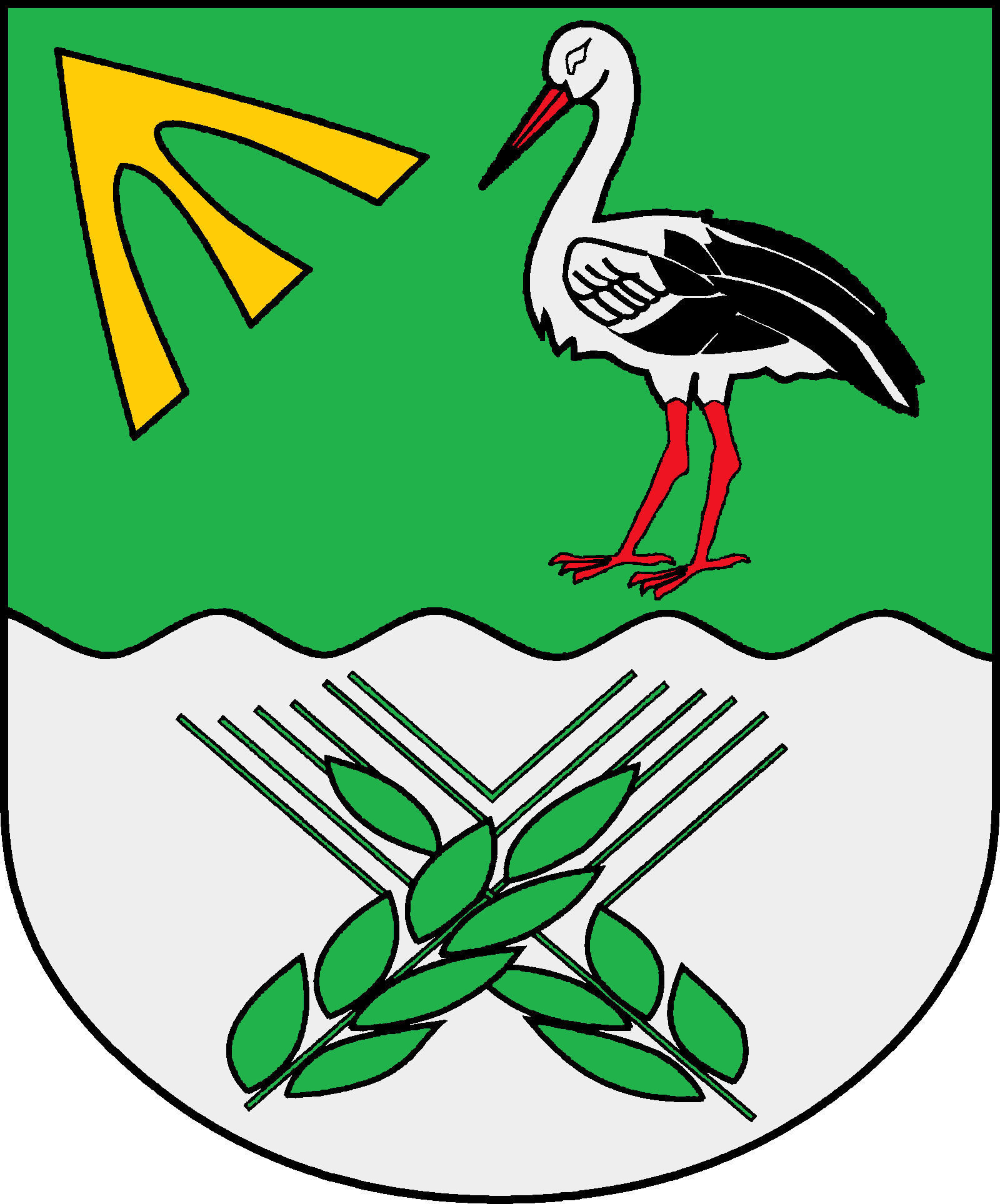 Coat of arms of the municipality Klempau in Schleswig-Holstein, Germany.